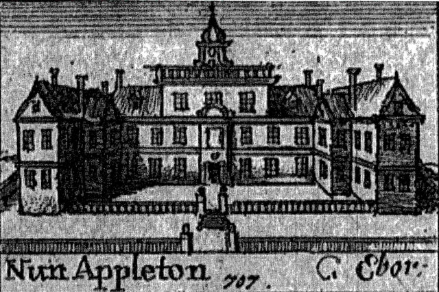 Nun Appelton, 1656